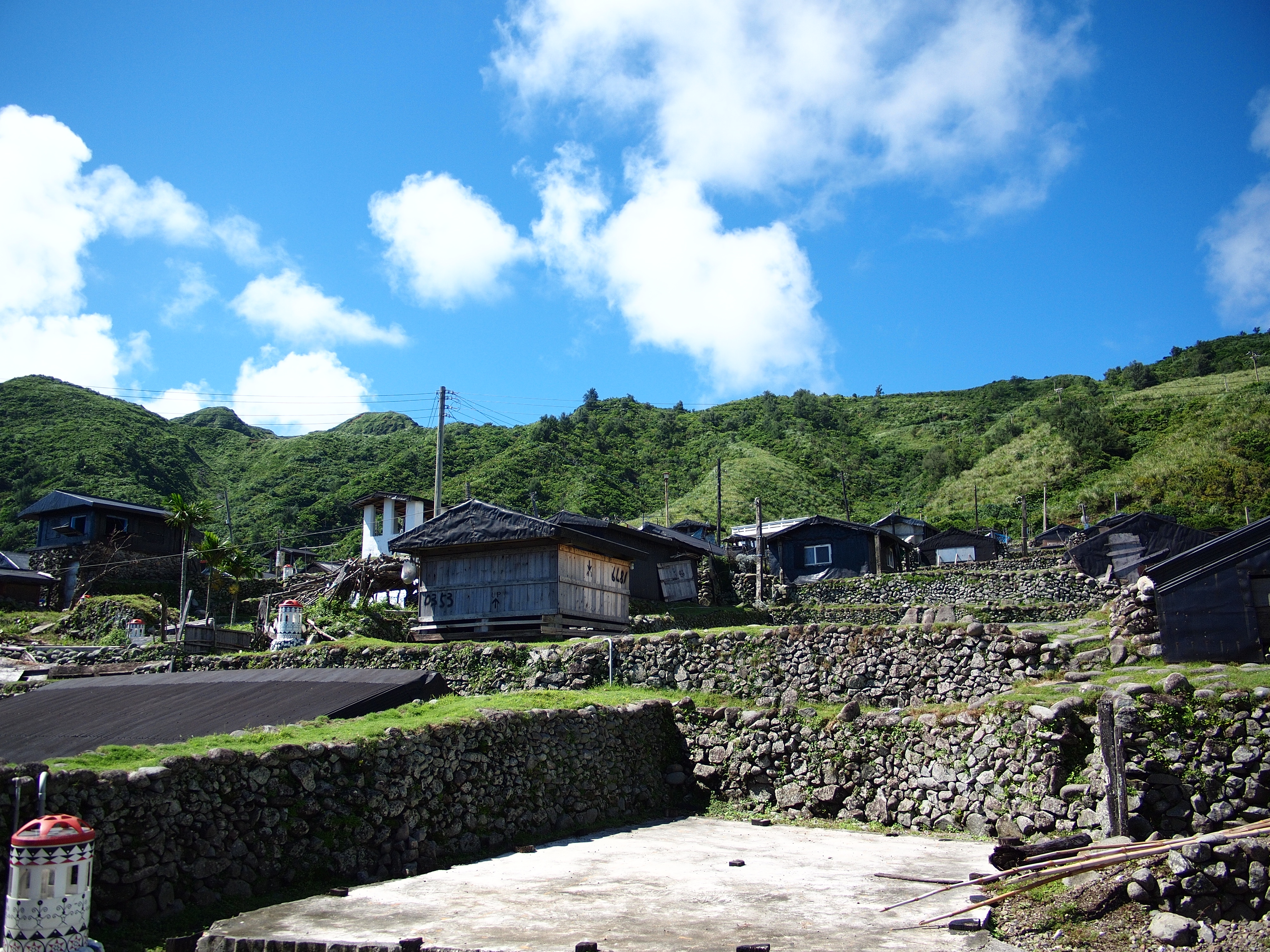 Traditional Tao village in Orchid Island